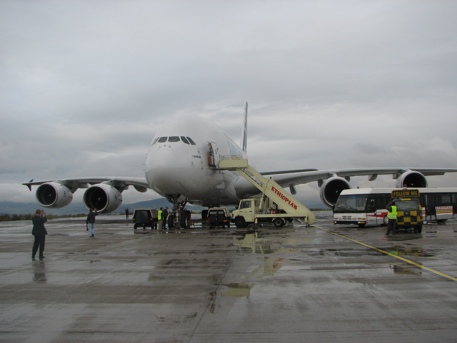 This is the Airbus A380 in Addis Ababa for high Altitude landing and start tests.